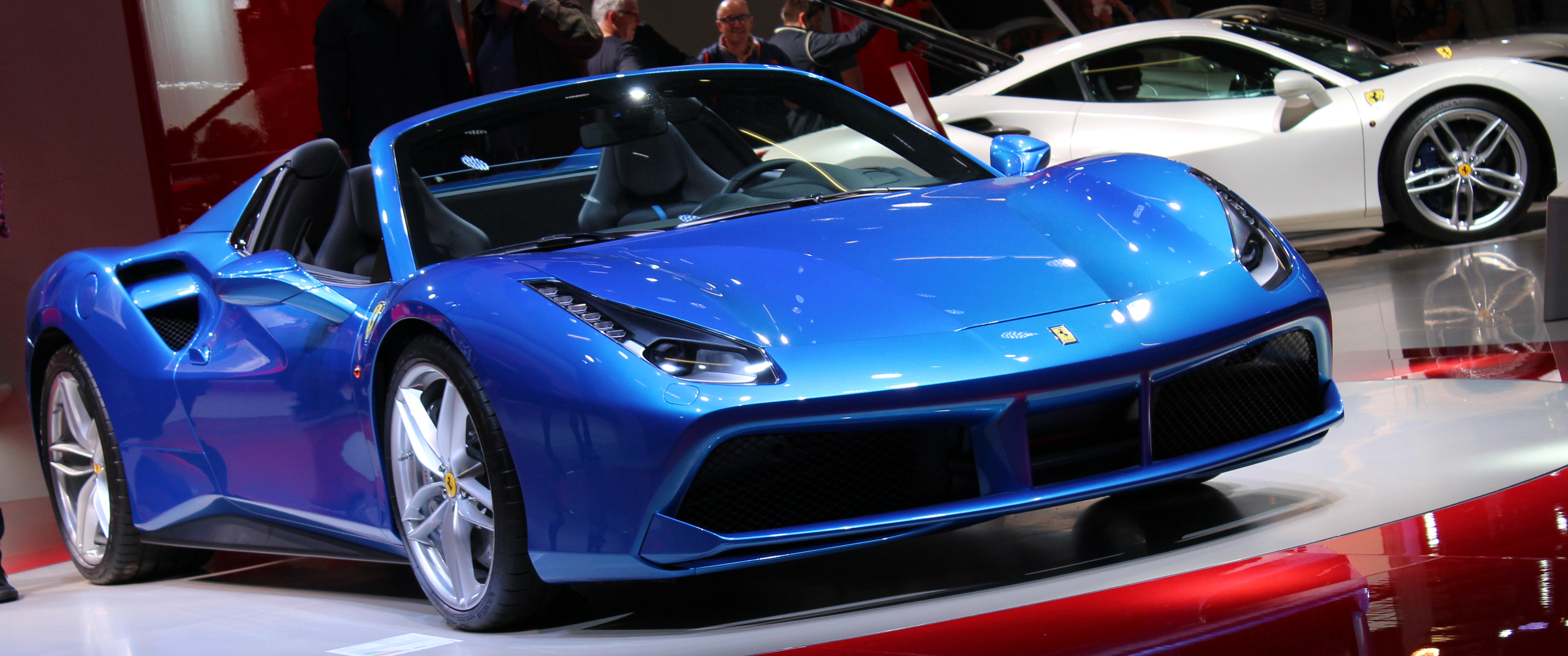 Passenger vehicles being displayed in 2015 International Motor Show Germany.